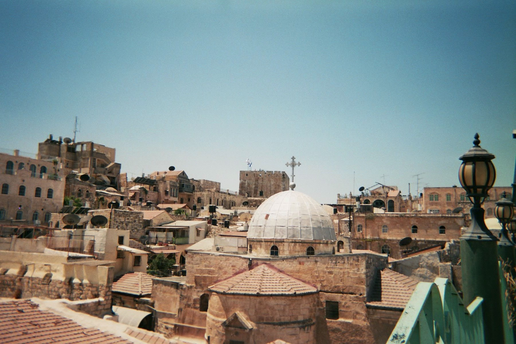 The church with the silver dome is St John the Baptist in the Christian Quarter, the oldest church in Jerusalem as seen from the roof terrace of the Papa Andrea's Restaurant in the Muristan, looking towards west.